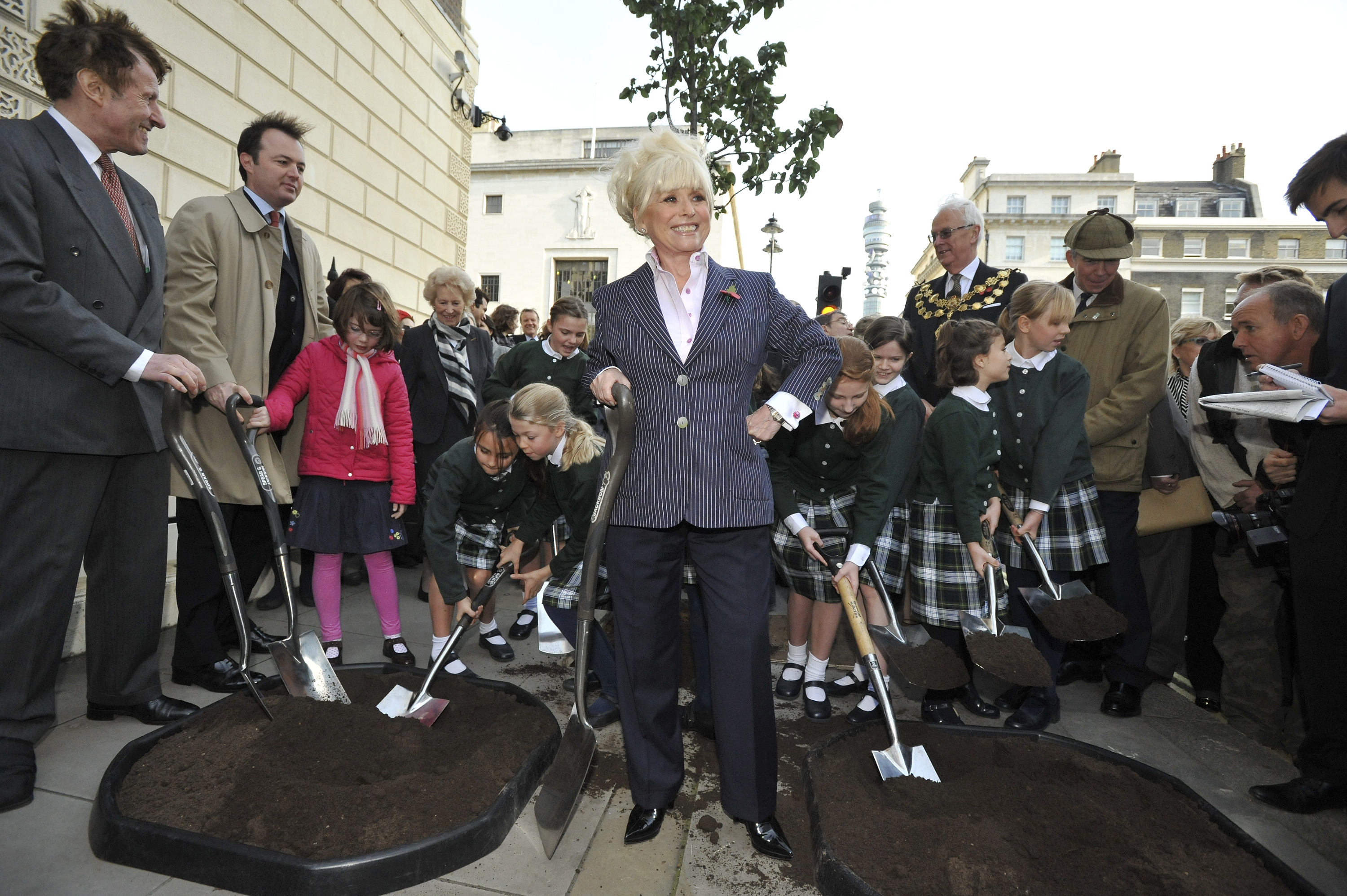 Urban Tree Planting Ceremony in City Of Westminster London. Barbara Windsor, actress and local resident, plants last of 53 trees to be added to Weymouth Street, London W1. The planting took place with the enthusiastic help of school girls from Queen’s College Prep School. They were joined by The Lord Mayor Locum Tenens, Councillor Harvey Marshall, who unveiled a ceremonial plaque for the occasion.